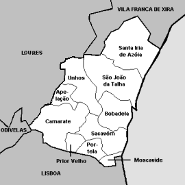 The parishes of a (future) municipality of Sacavém. Created by User:Brian Boru in January 2006, based on a map created by Jorge Candeias.